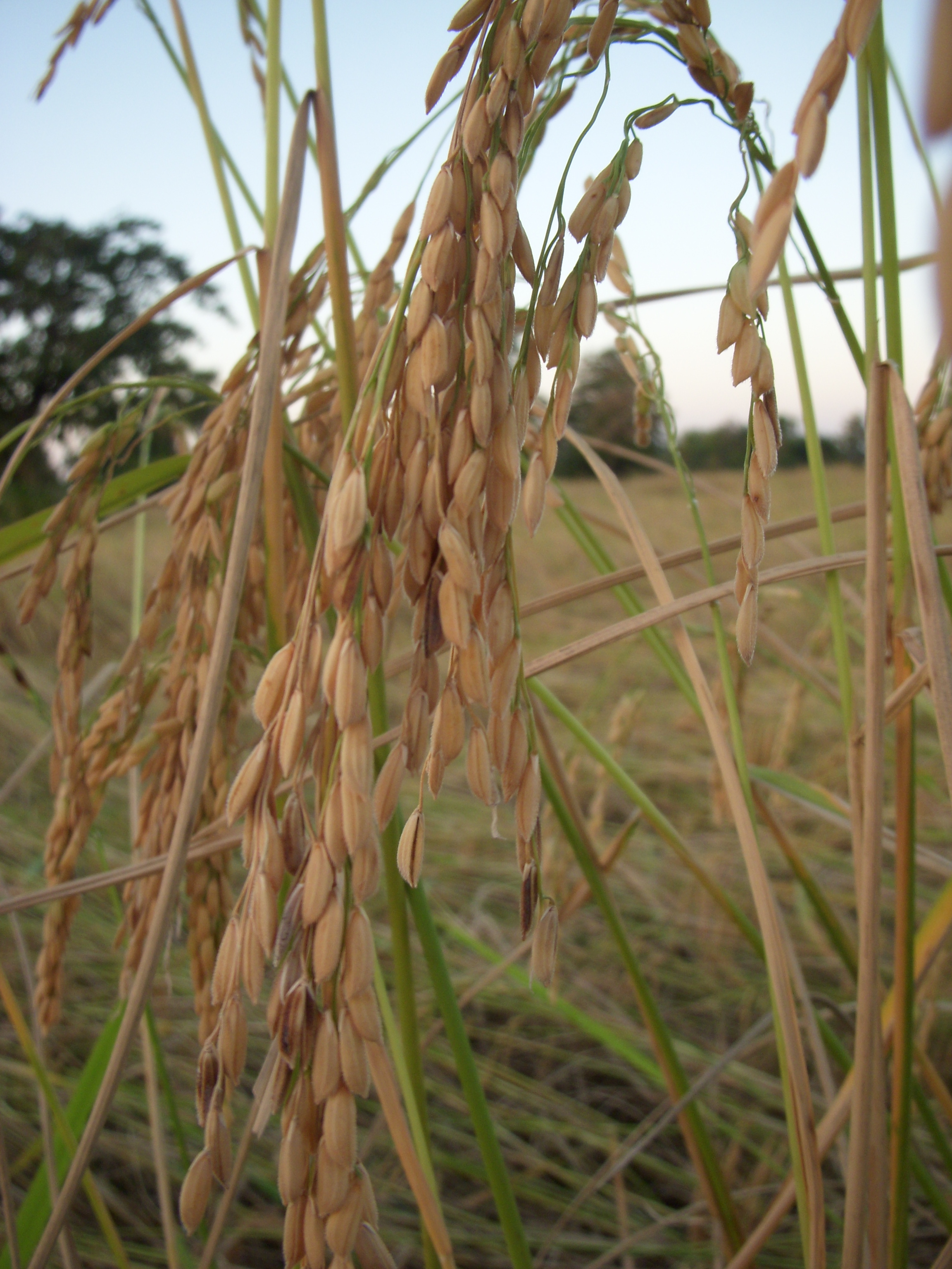 Close up of fully mature long grain rice on stalk. Taken in the 2008/2009 harvest season in Bakan district, Pursat Province, Cambodia. Rice harvested three days later (and delicious).